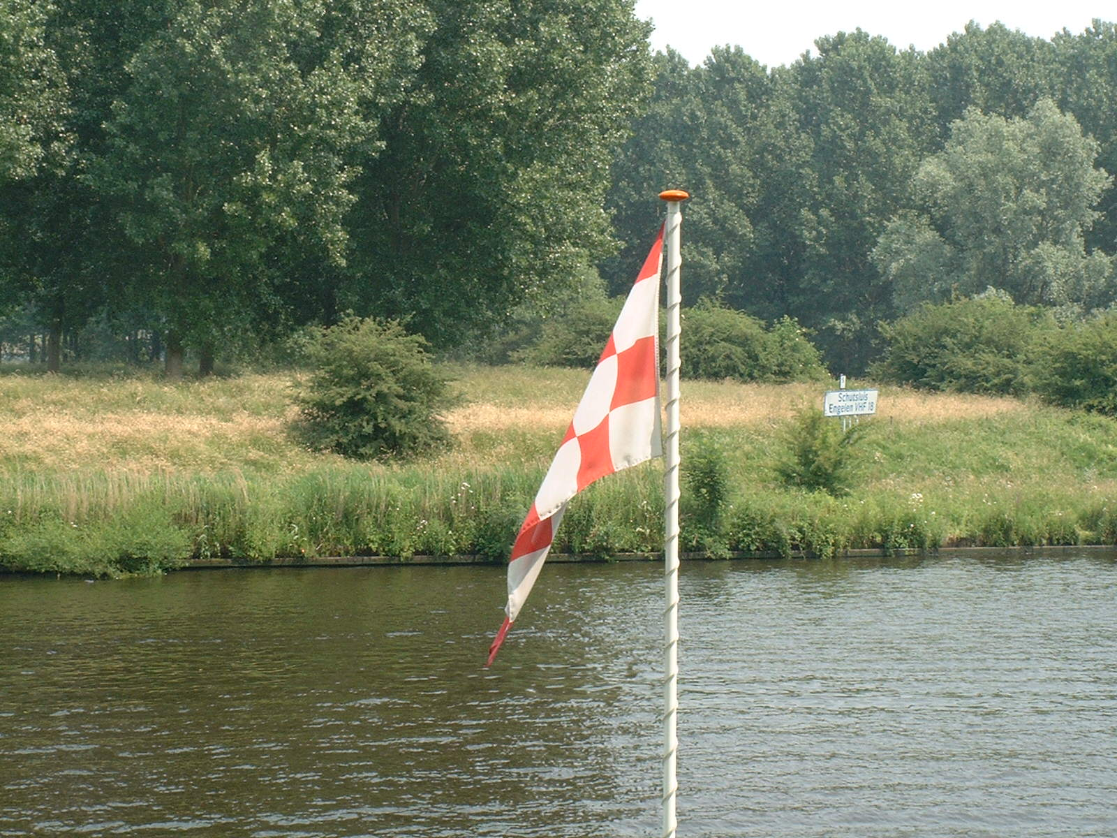 Flag of North Brabant, Engelen